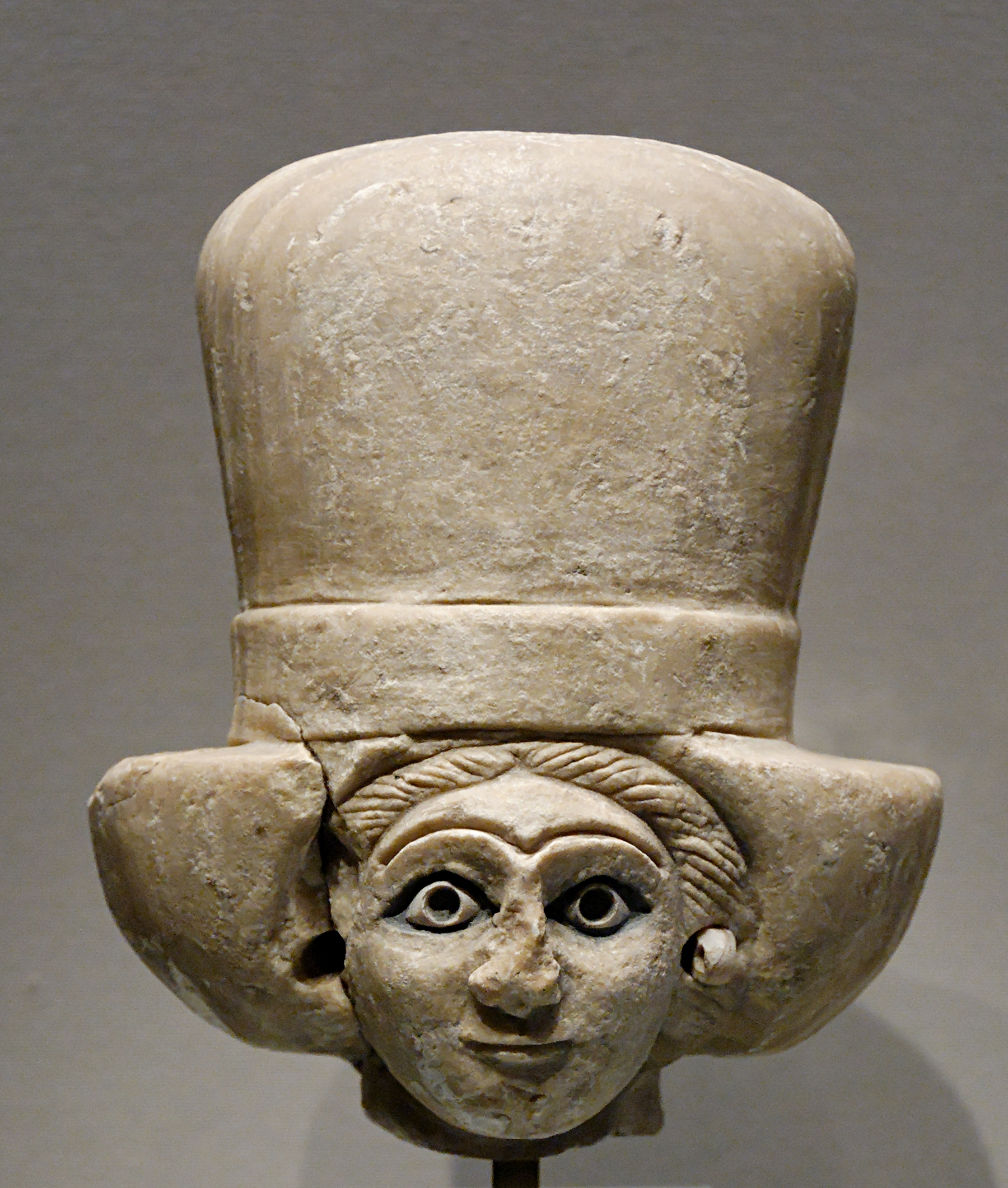 Female head wearing a polos.